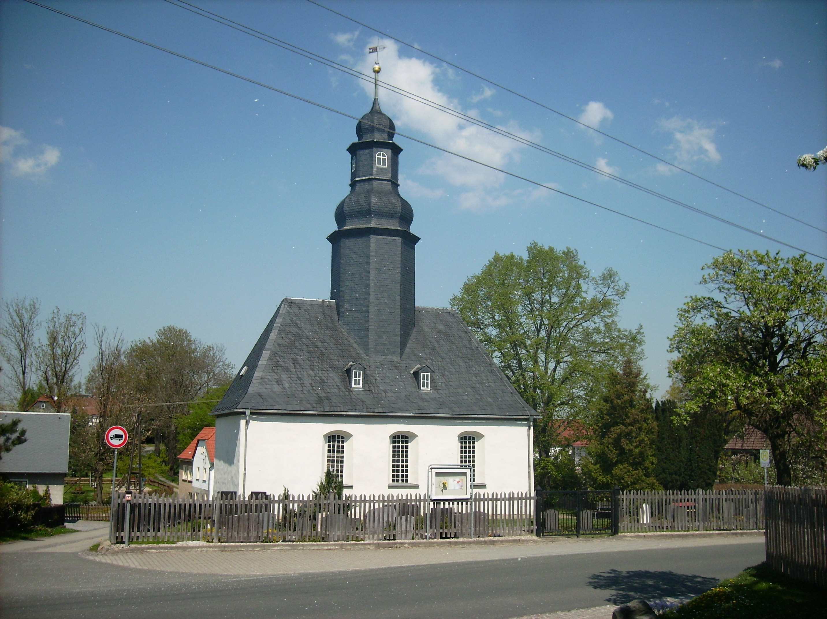 Vogelgesang church (Braunichswalde, Greiz district, Thuringia)